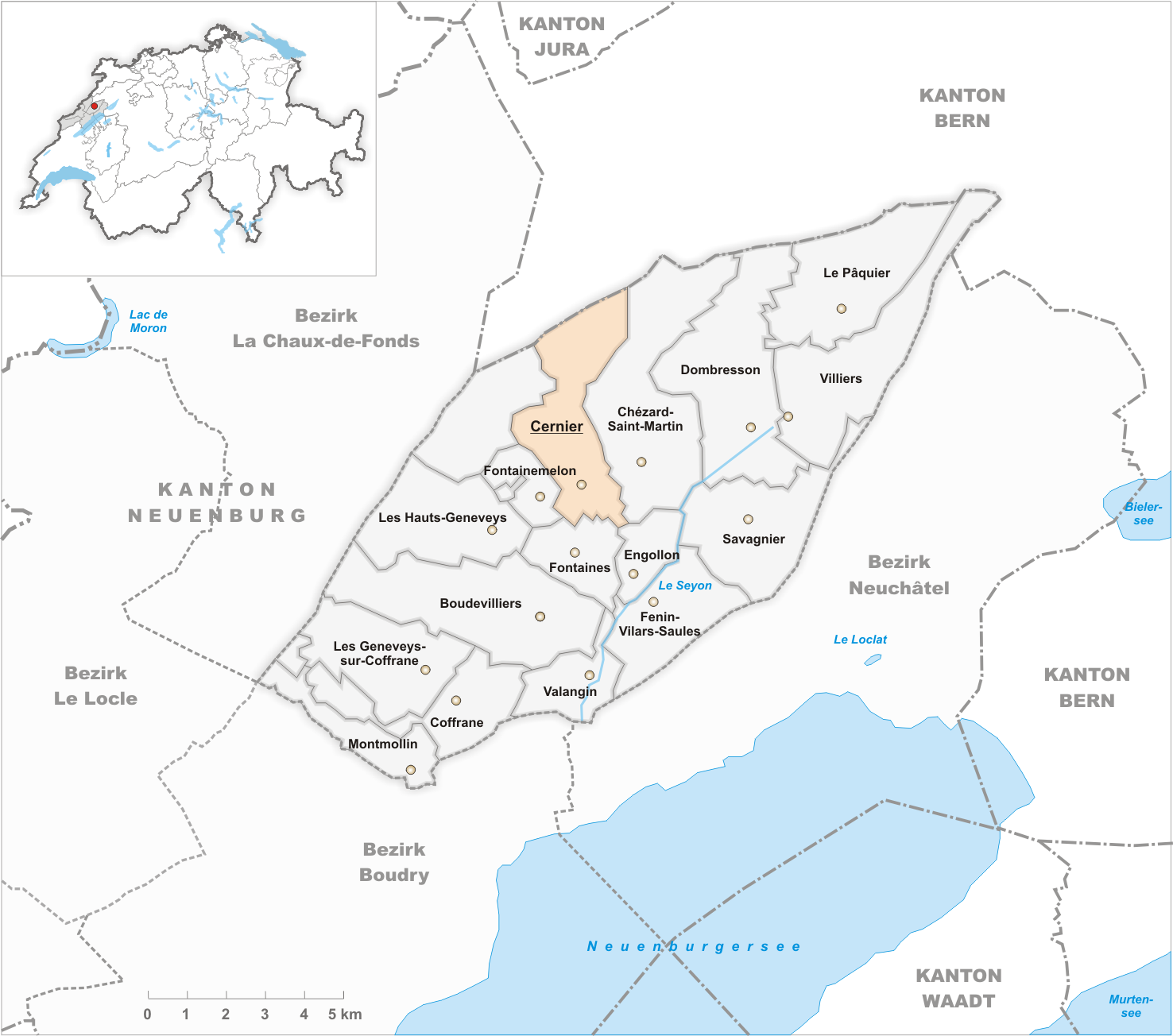 Municipality Cernier